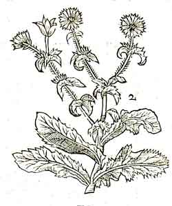 Illustration of the Endive (Cichorium endivia).